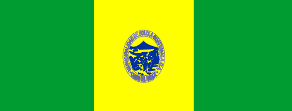 Flag of Sololá.